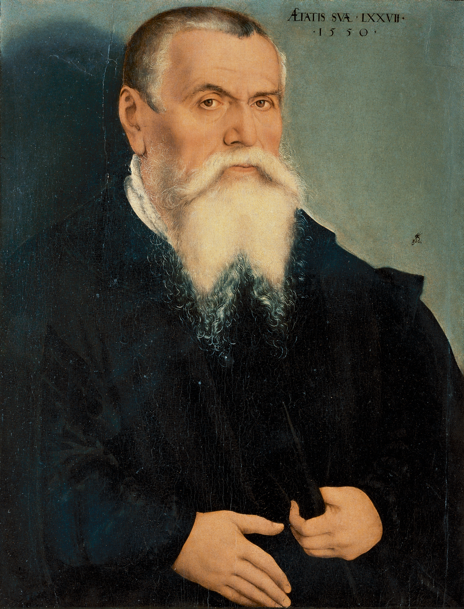 Portrait with 77th years